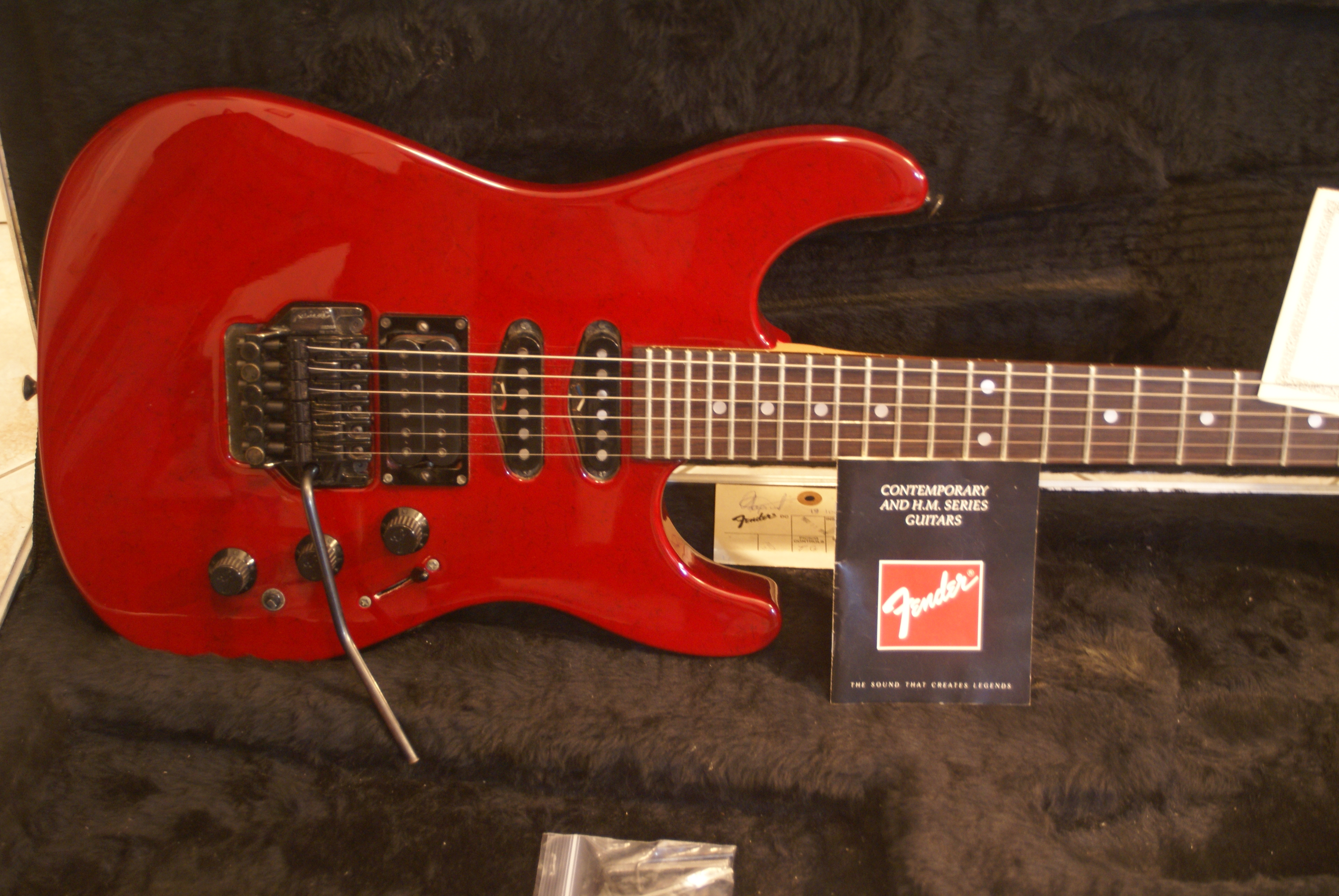 American Fender HM Strat